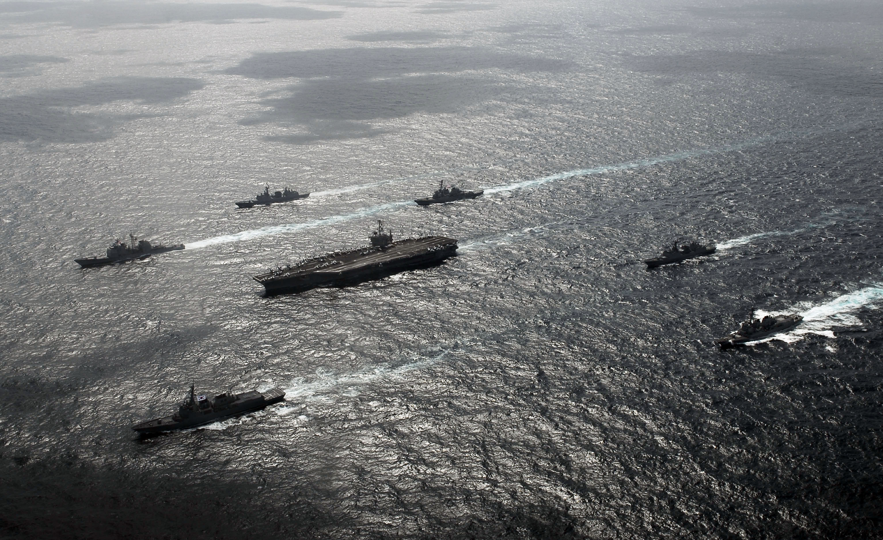 PACIFIC OCEAN (March 20, 2009) The aircraft carrier USS John C. Stennis (CVN 74) and ships of the John C. Stennis Carrier Strike Group are underway in formation with naval vessels from the Republic of Korea marking the end of Exercise Foal Eagle 2009, a defense-oriented annual training exercise with the Republic of Korea. John C. Stennis is part of the John C. Stennis Carrier Strike Group and is on a scheduled six-month deployment to the western Pacific Ocean. (U.S. Navy photo by Mass Communication Specialist 3rd Class Josue L. Escobosa/Released)